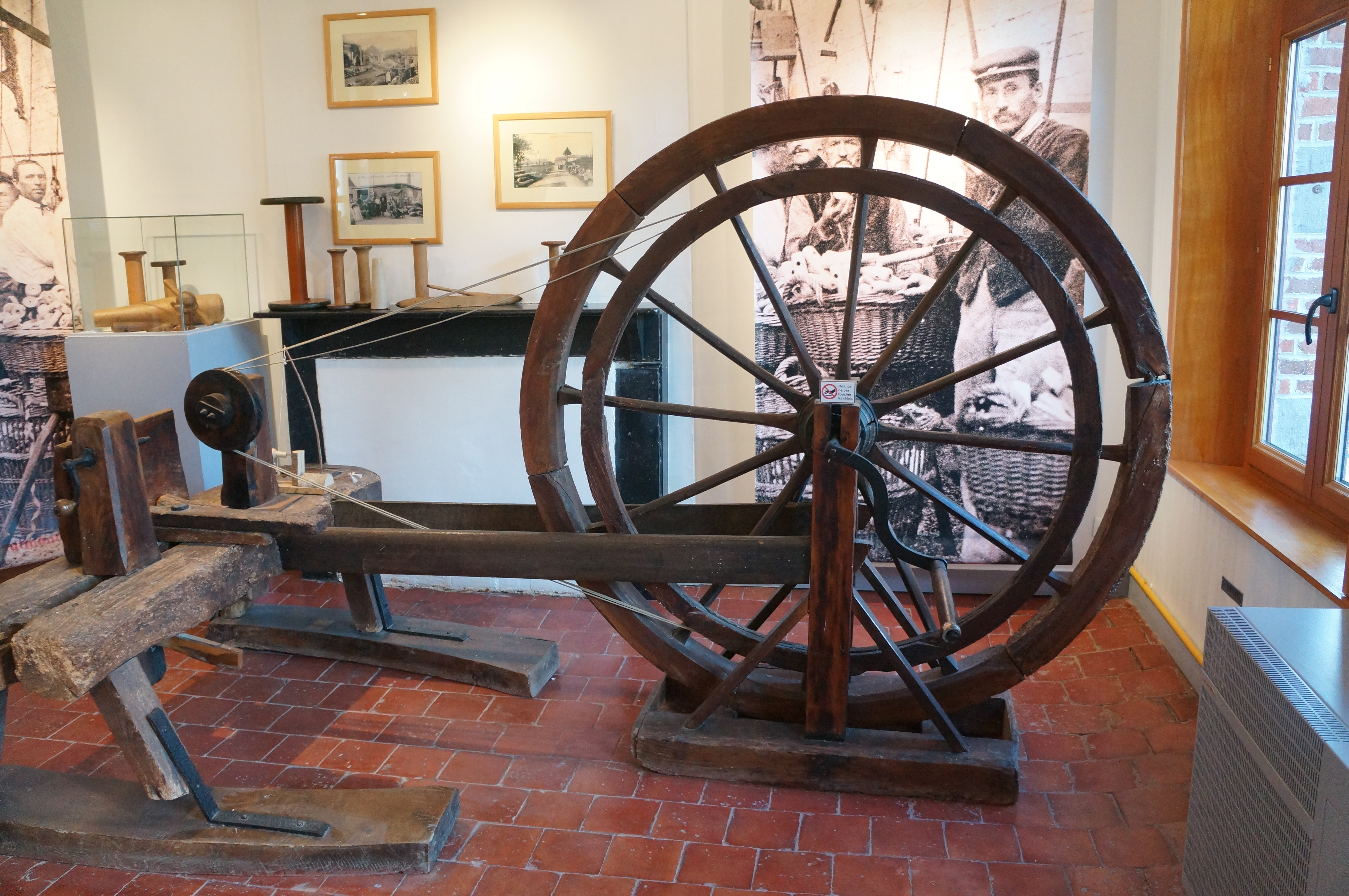 Wood-turning lathes XIX° century in the Musée des Bois Jolis de Felleries, Nord, Parc naturel régional de l'Avesnois) France.